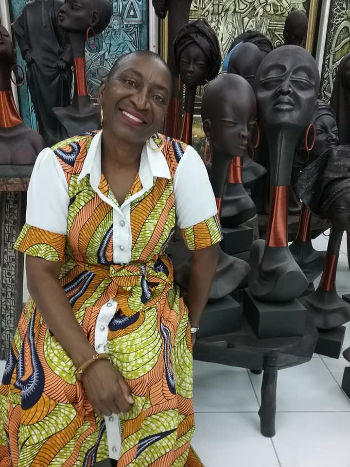 Nigerian feminist scholar and full professor of sociology